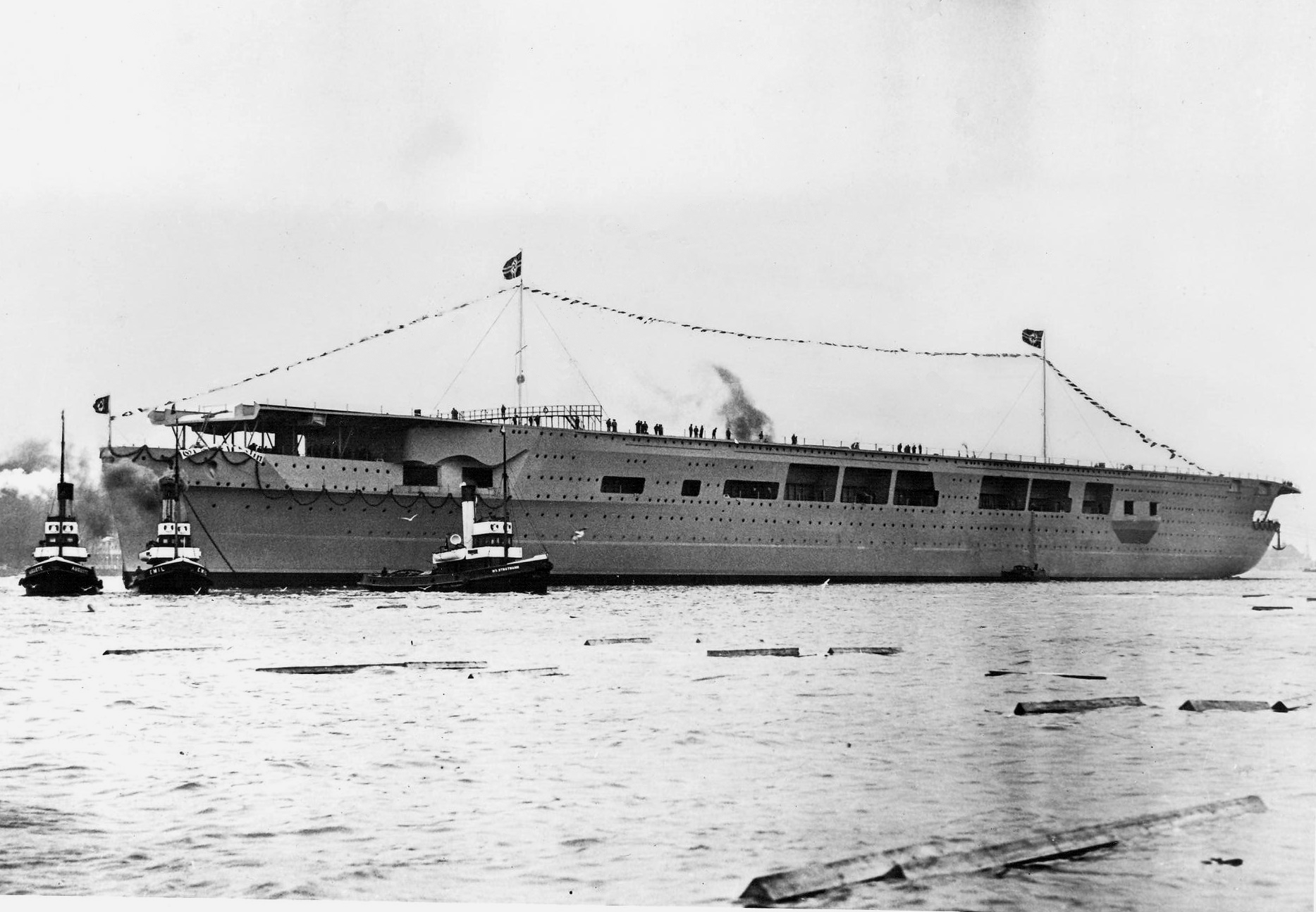 The German aircraft carrier Graf Zeppelin after launching in December 1938.